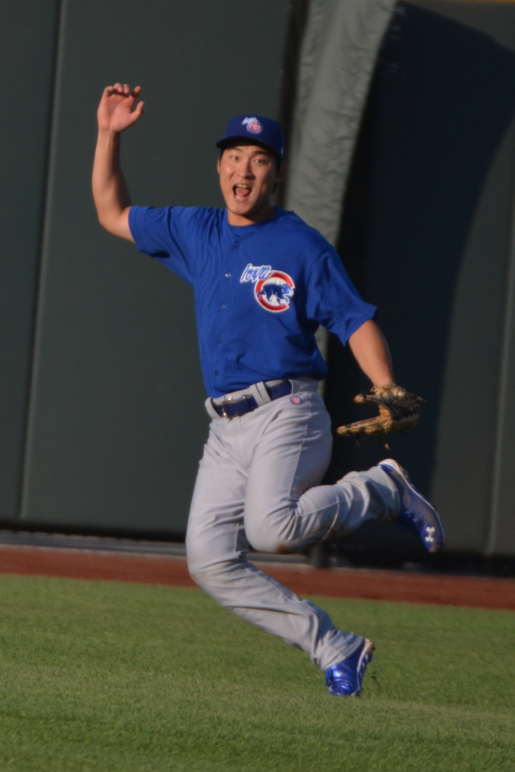 Ha Jae-Hoon